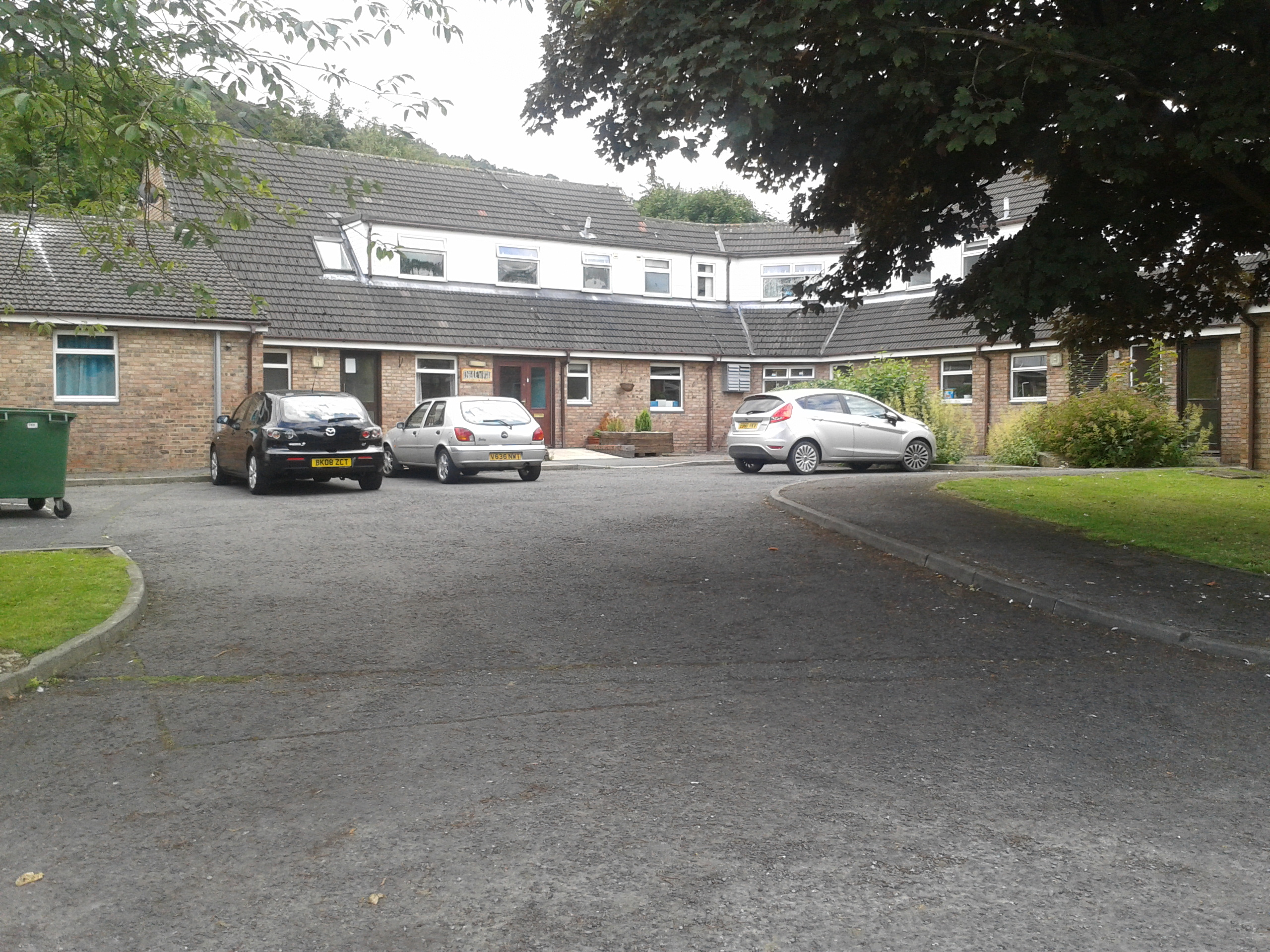 Inglewood Childrens Home